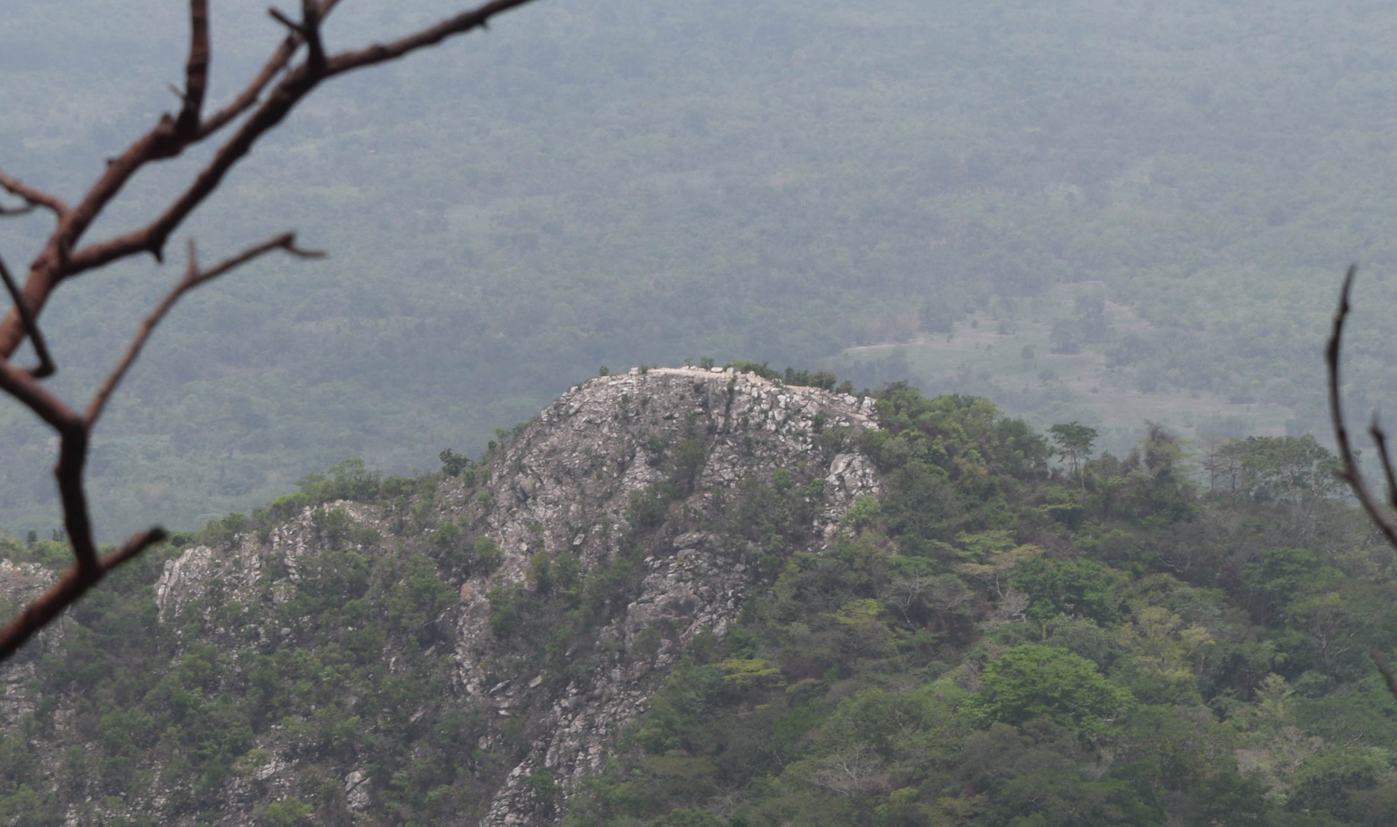 Afadja taken from from Aduadu, Ghana